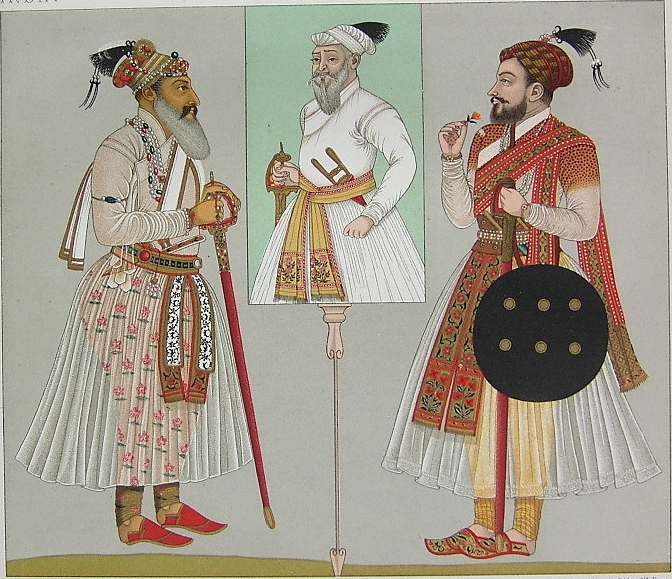 A French view of the clothing styles of the Golkonda kings; a plate from Racinet, 1888 A French view of the clothing styles of the Golkonda kings; a plate from Racinet, 1888 Source: ebay, Dec. 2001 From the original description: "The illustrations here show the last chiefs of the Hindustani Kingdom of Telingana, of which Golconde was the capital... ON THE LEFT: Djihan-Khan, wearing an unusual turban, quite unlike that worn by Muslims in that it comes over the forehead in a point. Made of fine silk, it is held in place by a golden ribbon with pearls and an emerald in the centre. At its top is a golden jewel, representing the sun, set with large rubies; this fastens a spray of fine feathers that bend down under the weight of two diamonds. A band of pearls and fine stones is attached at the base of the feathers and hangs down on either side of the turban like a necklace. An under-jerkin covers all the upper body, and is fastened by a belt at the waist. Rich and poor alike wear this type of costume, designed to give protection against the sudden changes of weather characteristic of the region. Wide silk trousers taper down beneath the jerkin to a narrow fit at the ankle. Then come velvet slippers, slightly turned up at the toes and leaving the heels exposed. Over this costume, Djihan-Khan wears a wide robe of an almost transparent muslin, held by a silver-plated belt that is inset with precious stones. Beneath it are two sashes of cashmere with gold bordering - a badge of rank. ON THE RIGHT: Schah-Soliman, carrying a shield made of rhinoceros hide and decorated with six metal rivets. This Rajput is smelling a flower: a reminder of the interest that Indians of rank showed in perfume."